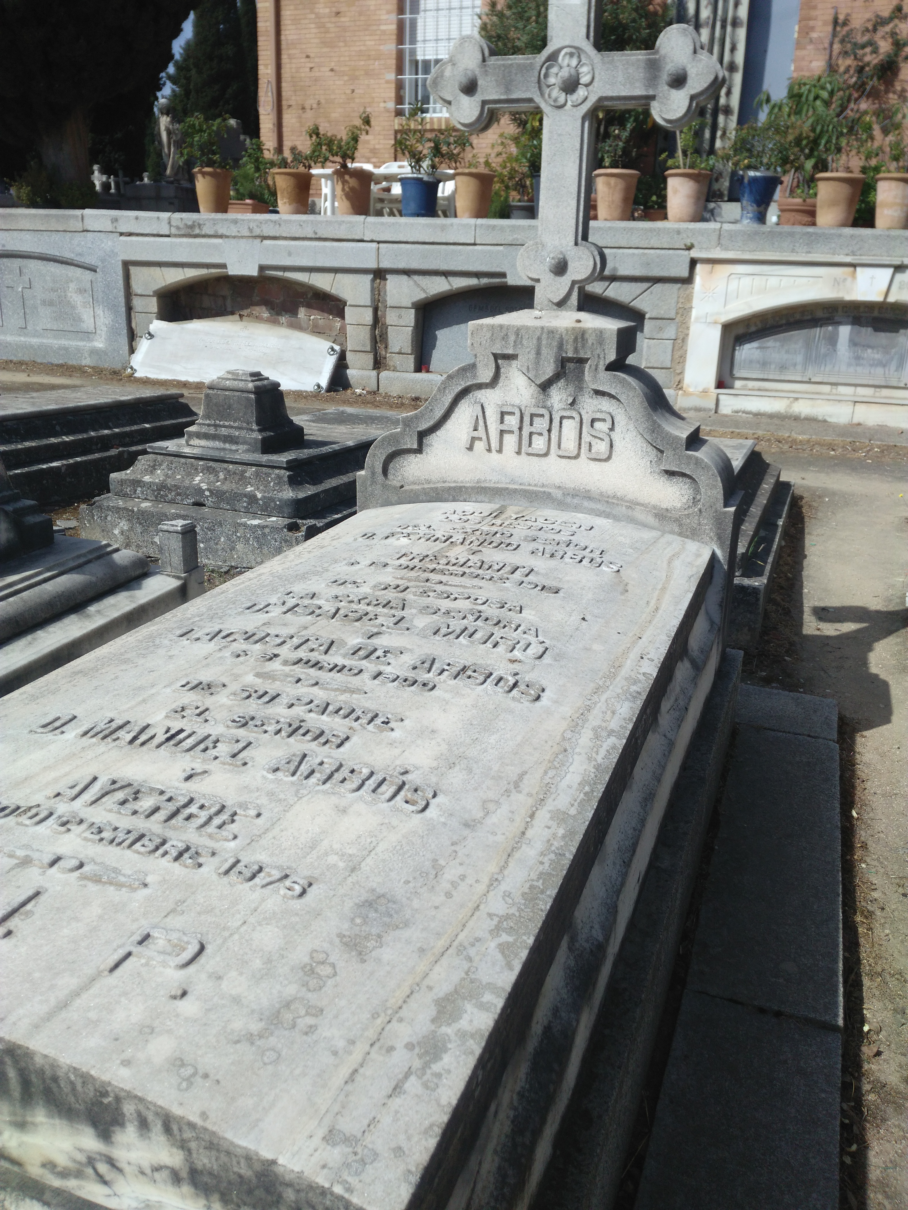 Fernando Arbós y Tremanti, Manuel Arbós y Ayerbe, San Isidro Cemetery, Madrid.